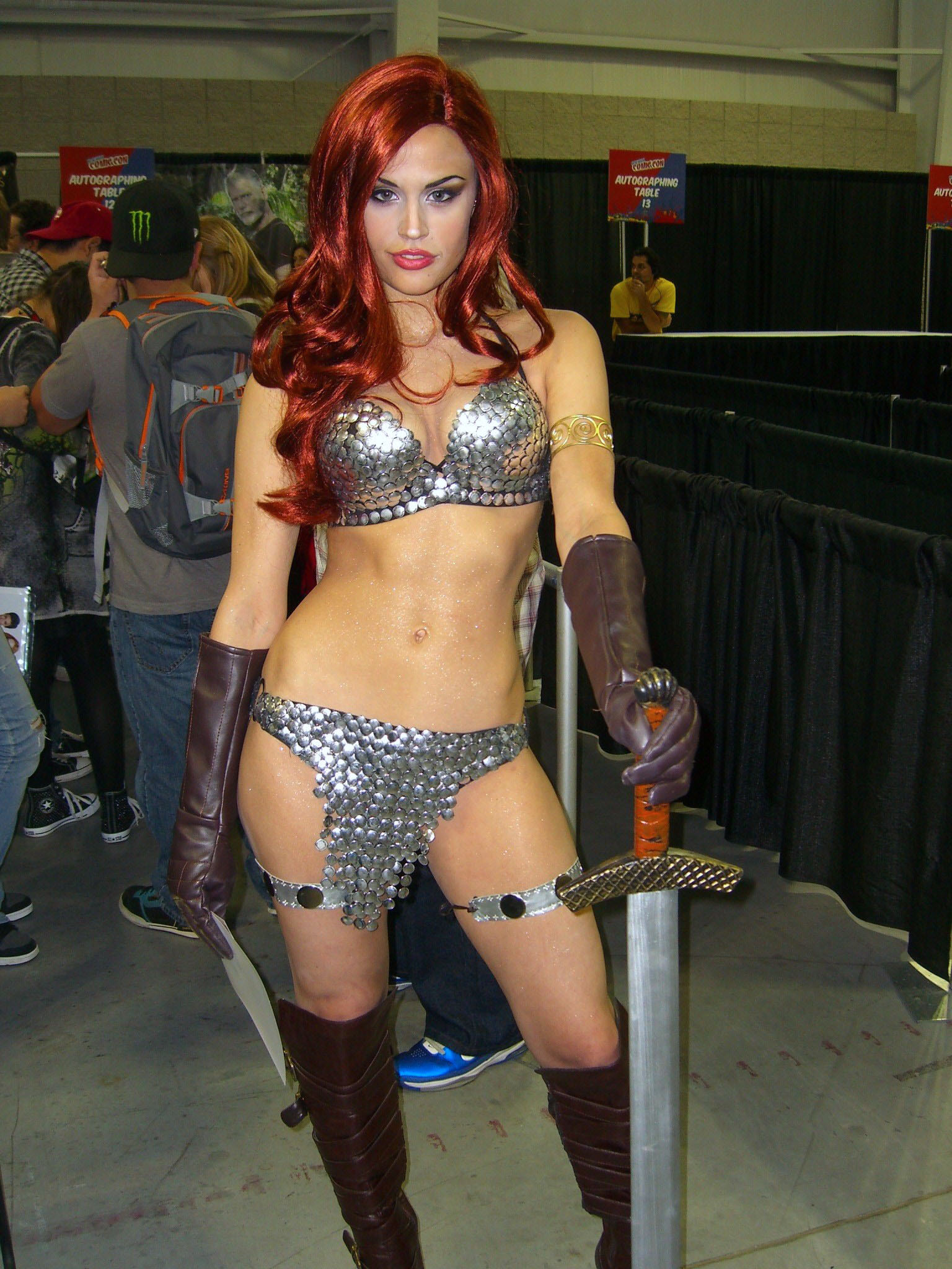 A cosplayer dressed as Red Sonja at the Image Comics booth at the New York Comic Con, October 15, 2011. This photo was created by Luigi Novi. It is not in the public domain, and use of this file outside of the licensing terms is a copyright violation.